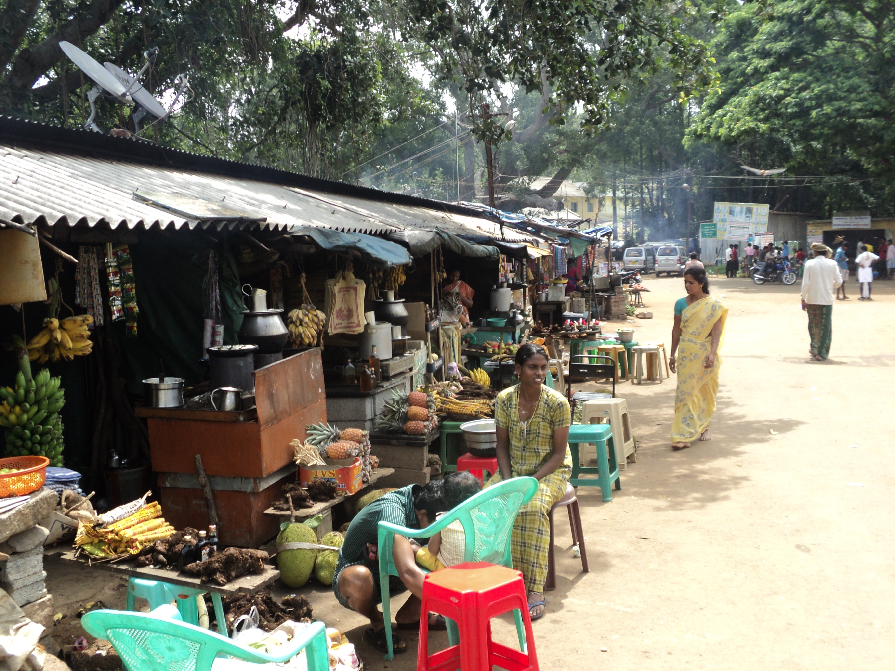 A Market in Kolli Hills